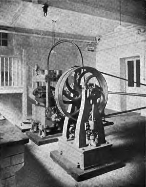 Black-and-white photograph of a 200-ton press in the Machine Room of Johnston Laboratories at the University of Liverpool, Liverpool, England, in the United Kingdom. This photograph dates from the formal opening of the laboratories in 1903. "A large room has been fitted in the Thompson Yates laboratories with apparatus for the use of the various research departments. Shafting running the length of the room is driven by a 10 horse-power motor, and from the shaft is driven an hydraulic press giving a total pressure of 200 tons, a high-pressure filtering apparatus, and gas liquefier, and a powerful centrifuge. From a smaller motor and shafting is driven a large centrifuge, a vaccine mill, a bacterial mill and disintegrating apparatus. The shafting is so constructed that new apparatus can be added as occasion requires."